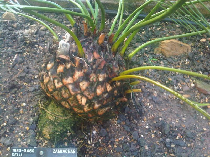 The large stem of Dioon caputoi in Kew Gardens, England.